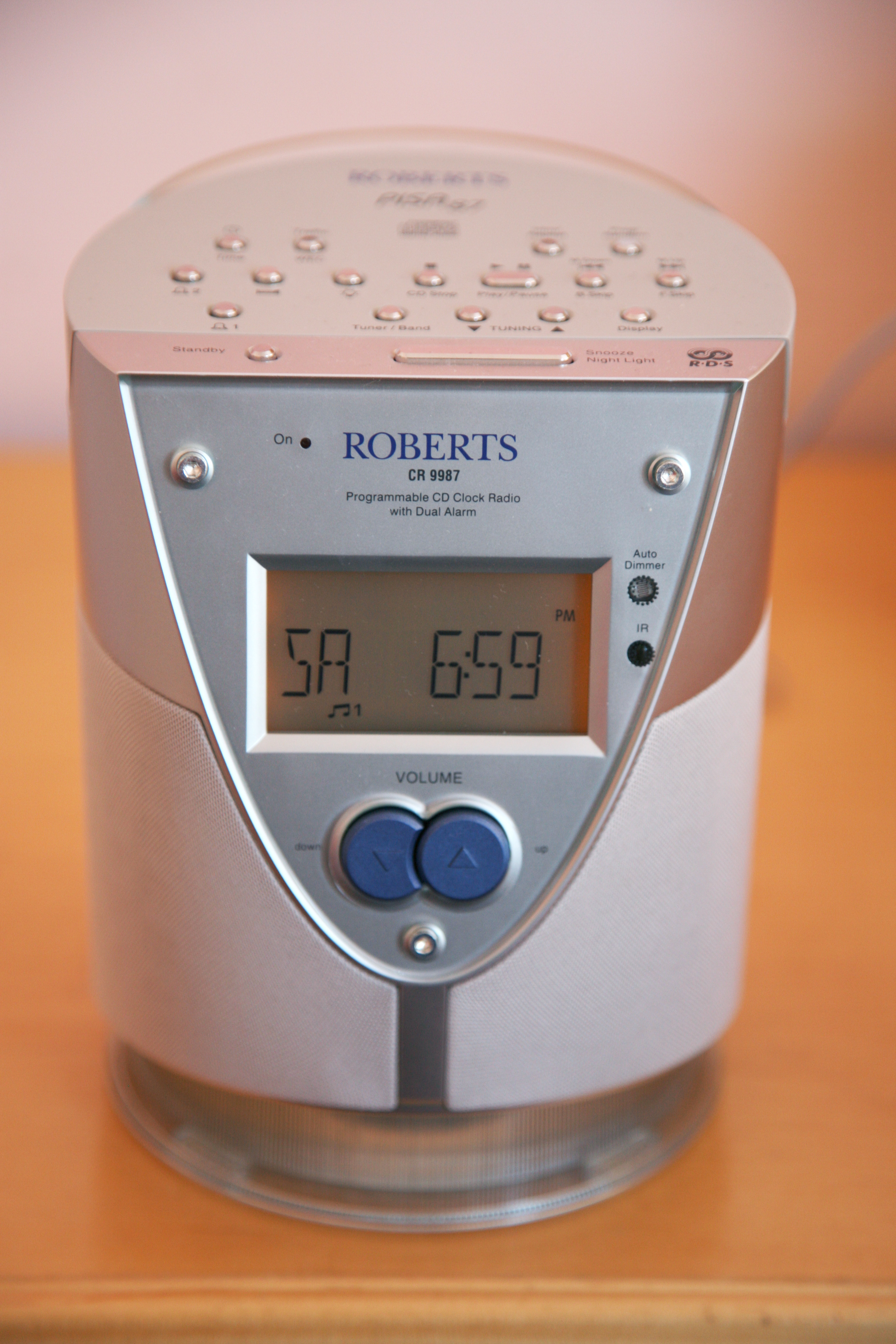 A CD/radio alarm clock by Roberts Radio. Photo taken by Stratford490.